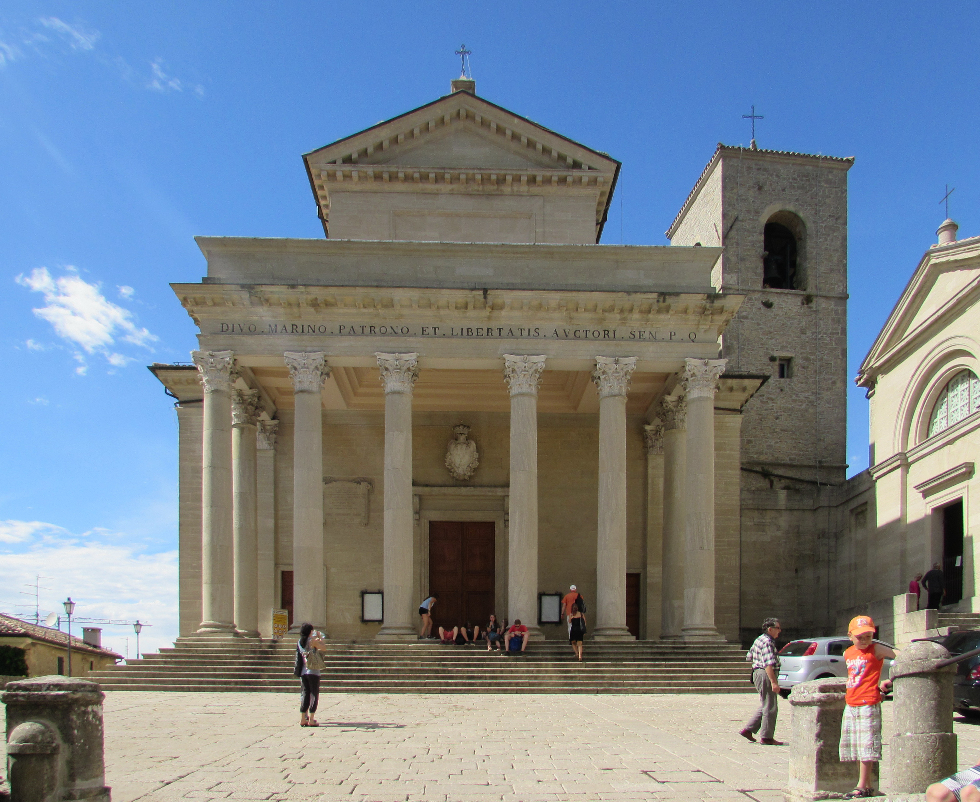 San Marino cathedral